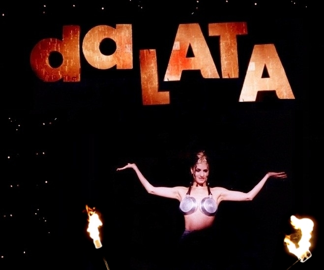 Brazilian singer Fernanda Abreu live on Da Lata Tour - Rio de Janeiro 1996